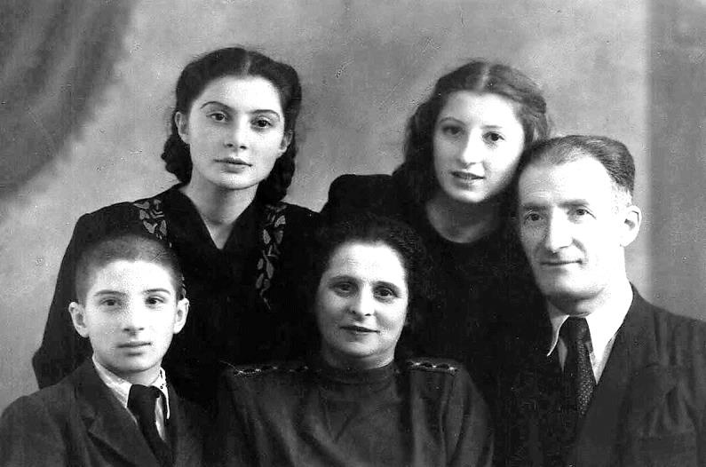 Zvi Preigerzon Family 1949